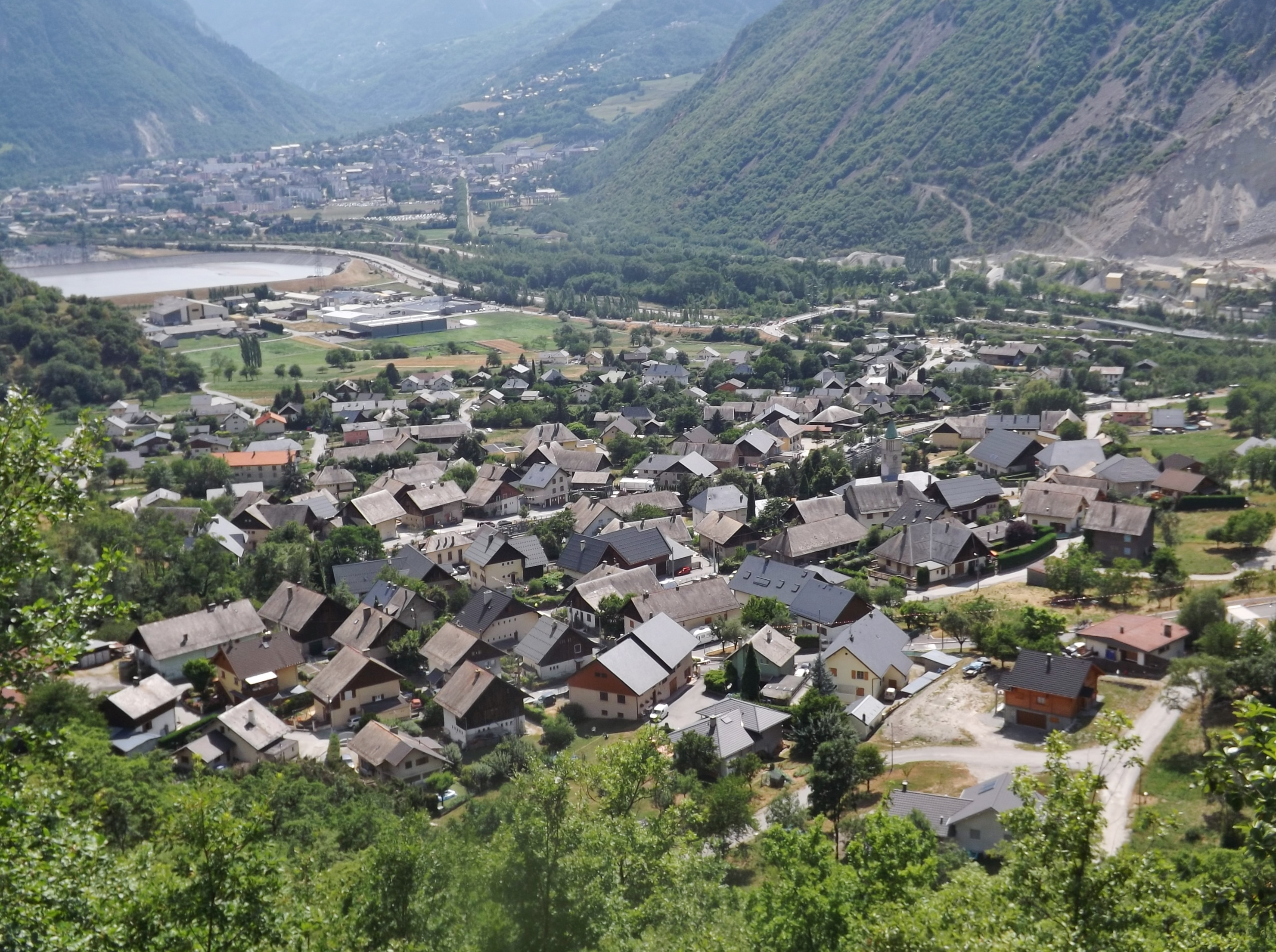 Panoramic sight of the village of Hermillon, with visible at the background the city of Saint-Jean-de-Maurienne, in the Maurienne valley of Savoie, France.